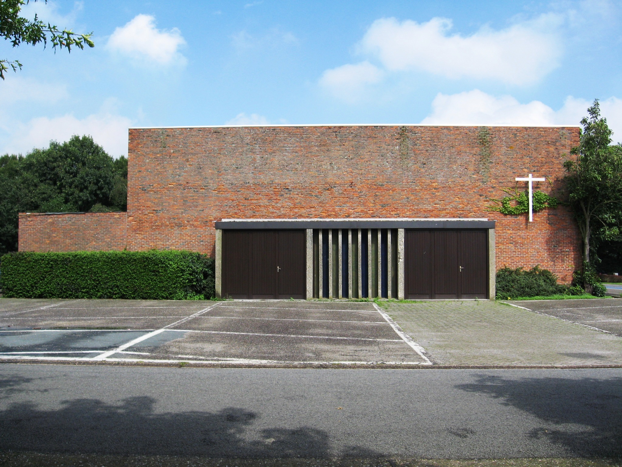 Church of Saint John Berchmans in Kwaadmechelen, Ham, Limburg, Belgium